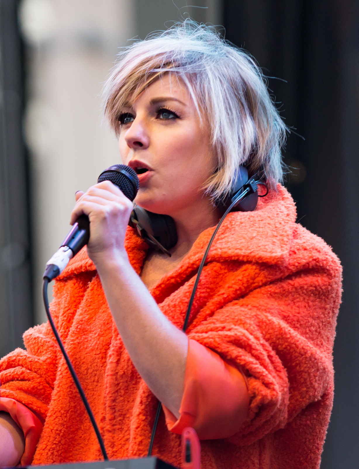 Little Boots performing live at the Winter NAMM Show 2018 in Anaheim, California, on Friday, January 26, 2018.